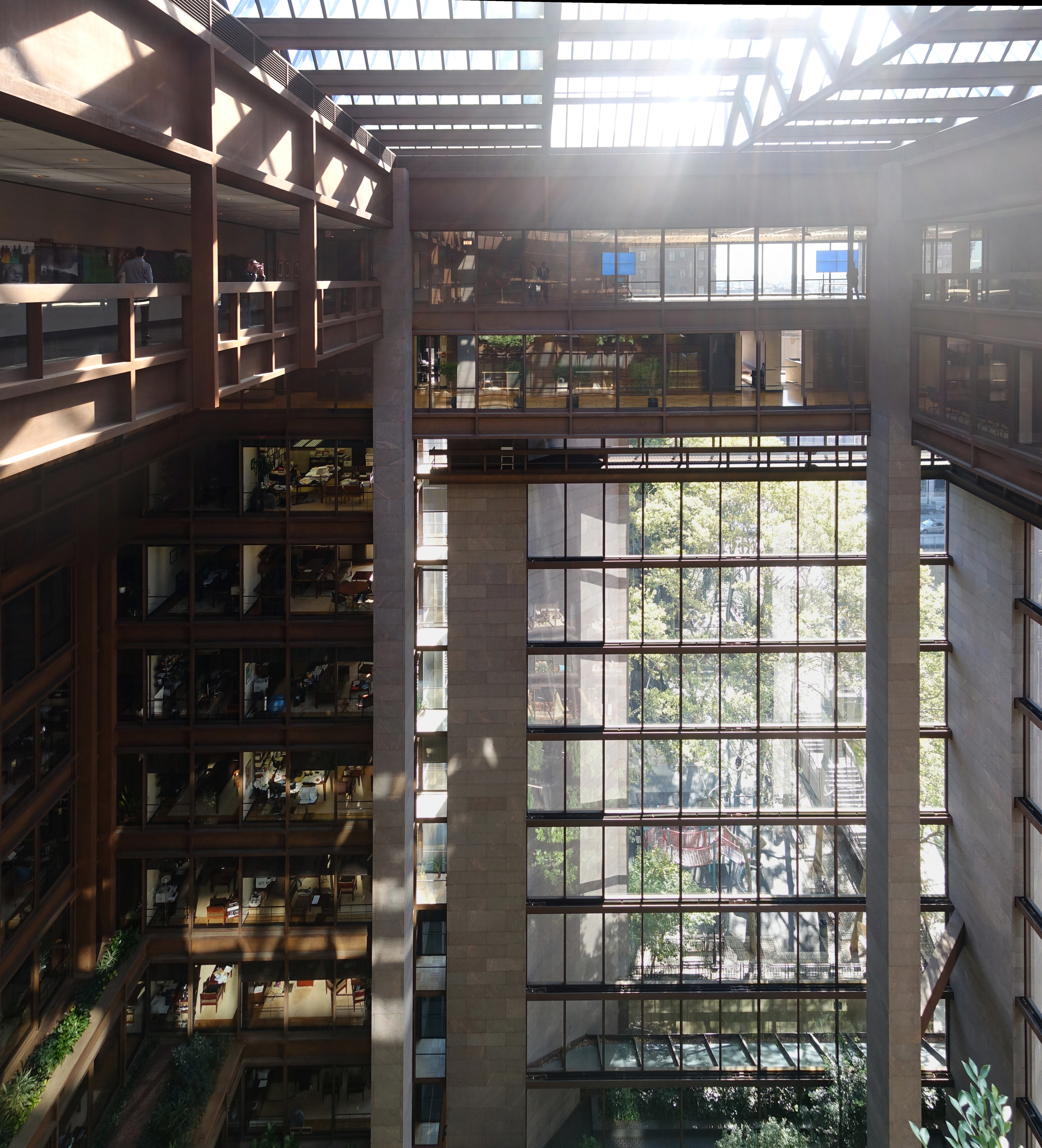 Ford Foundation Open House New York Site: Ford Foundation